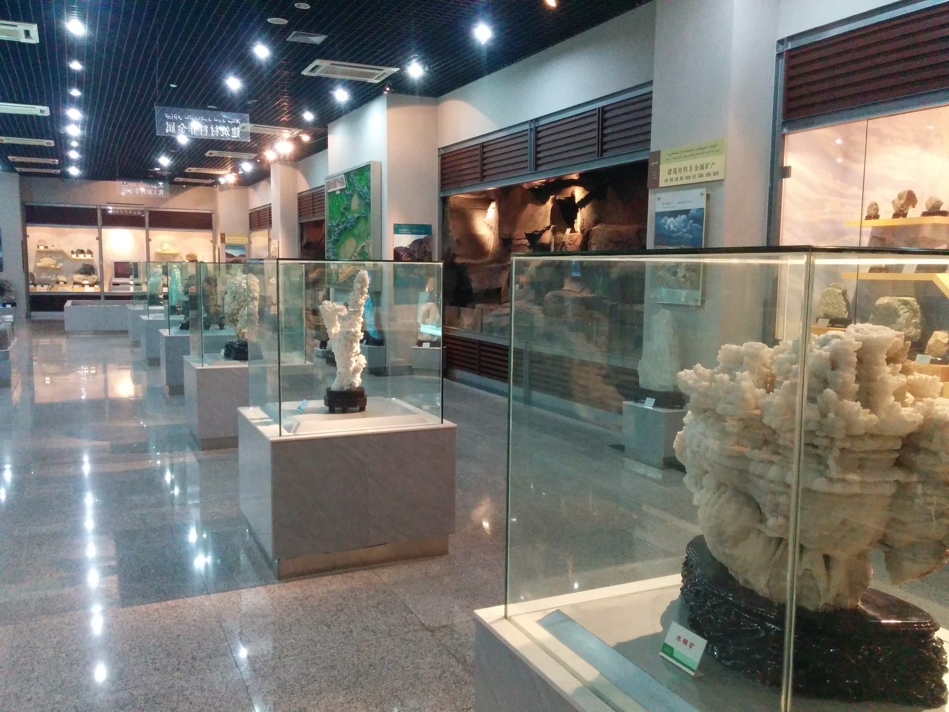 Exhibition hall of Xinjiang Geological and Mineral Museum